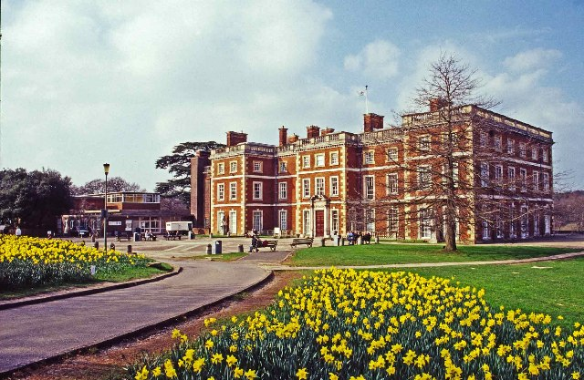 Trent Park House. A more recent image of this lovely building in Spring taken in 2005 from the eastern side of the building.